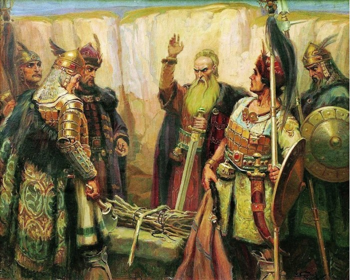 A 1926 painting by bulgarian artist Dimitar Gyudjenov